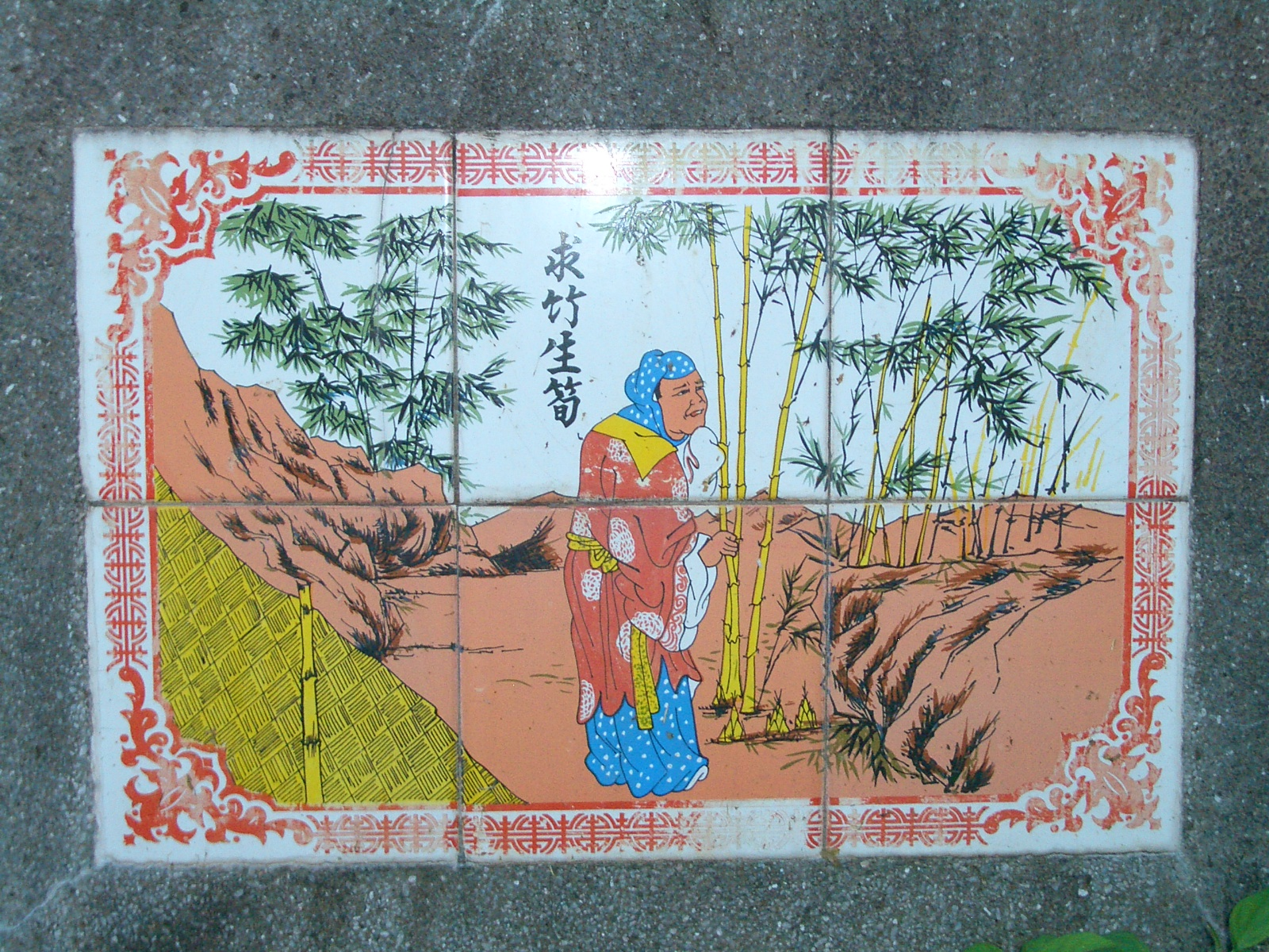 Graves, old and recent, in Bukit Cina Cemetery